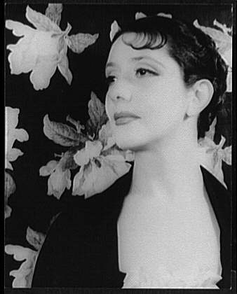 Portrait of Lynn Fontanne - May 23, 1932